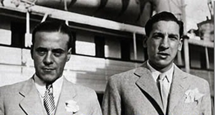 see file name